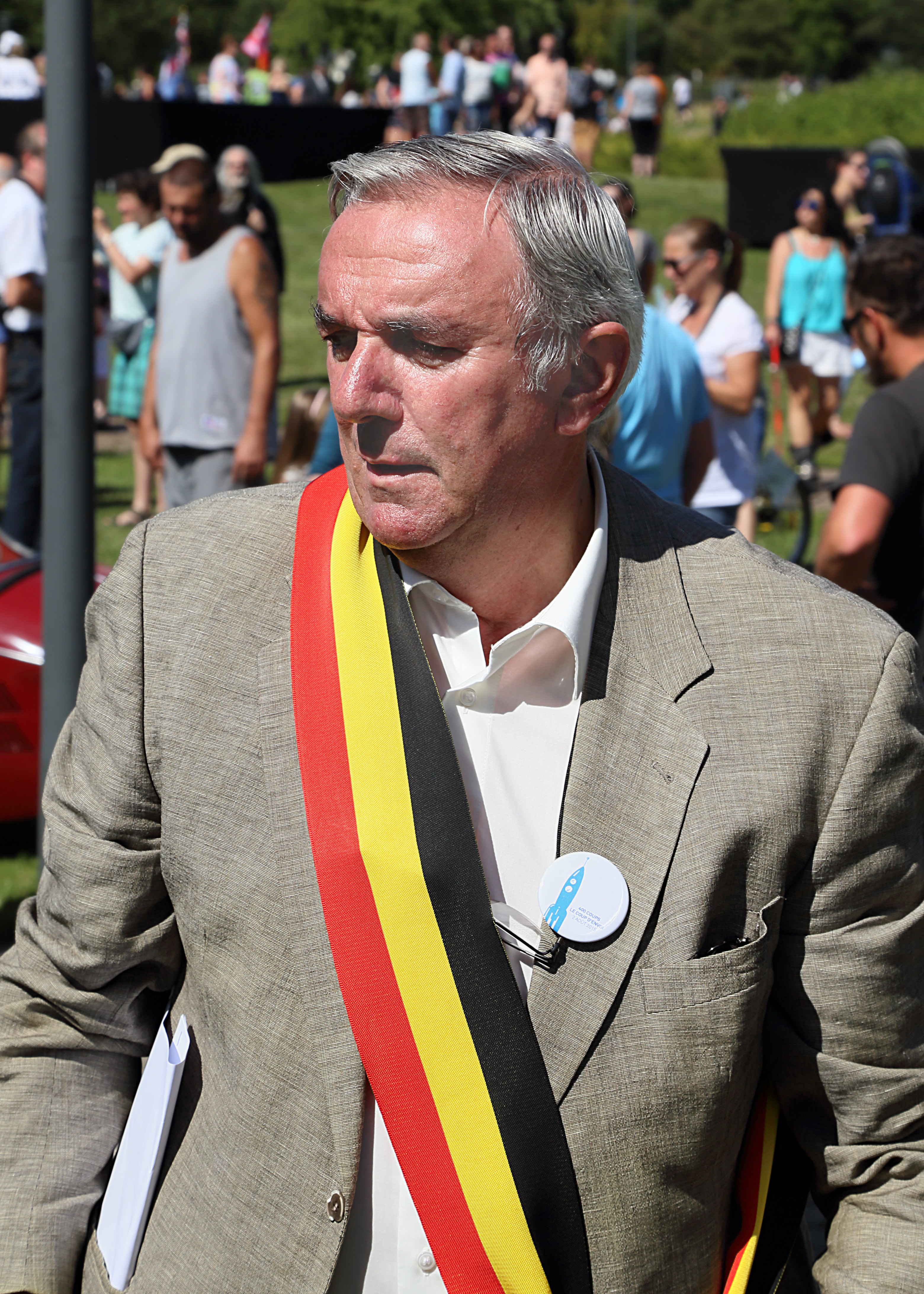 Ides Cauchie, Belgian politician, member of the CDH, mayor of Ellezelles at the time of the photo, taken during the envent 'Les 400 coups' August 2nd, 2015 in the municipal park of Mouscron, Belgium.